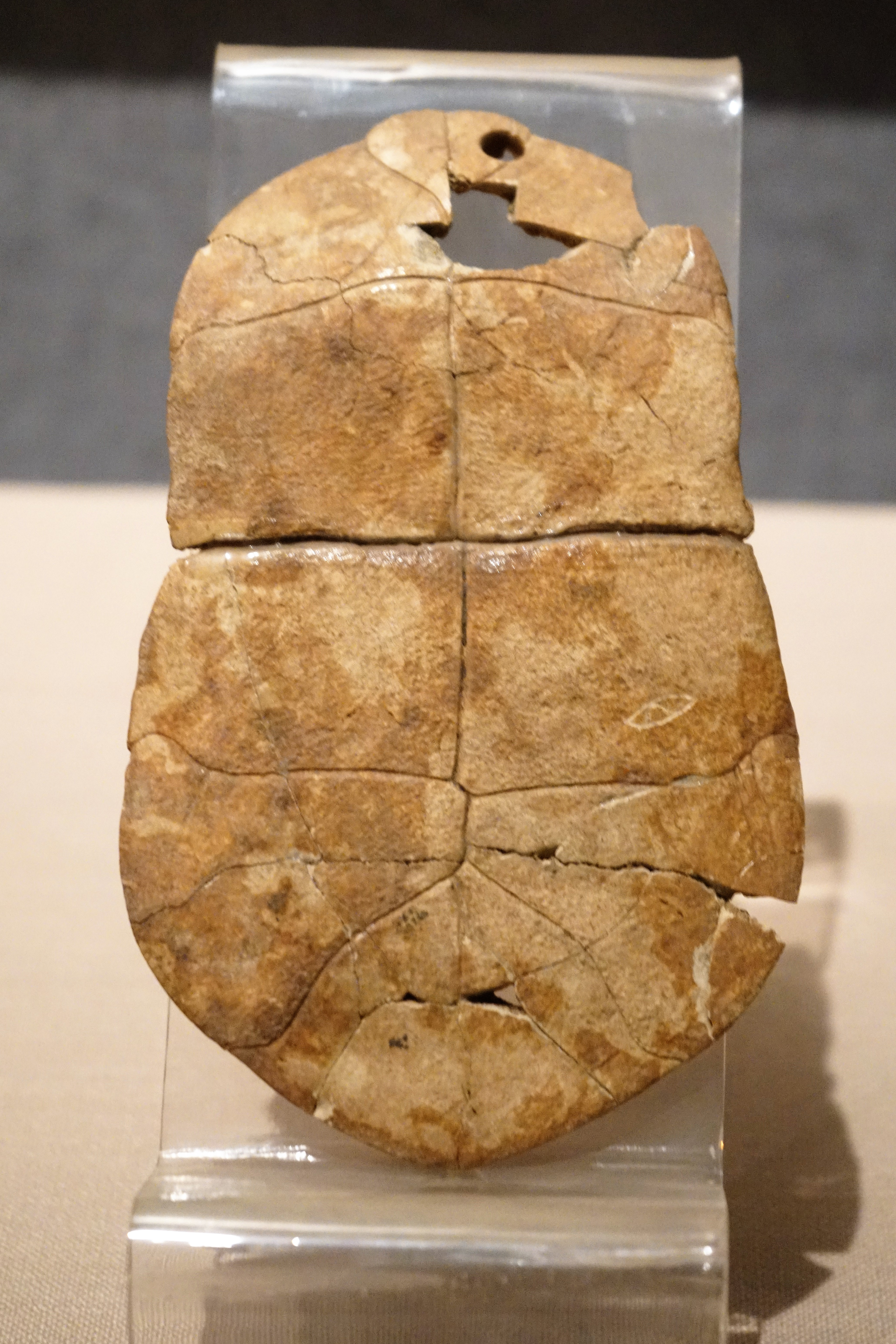 刻符龟甲 新石器时代（裴李岗文化） 舞阳县贾湖出土